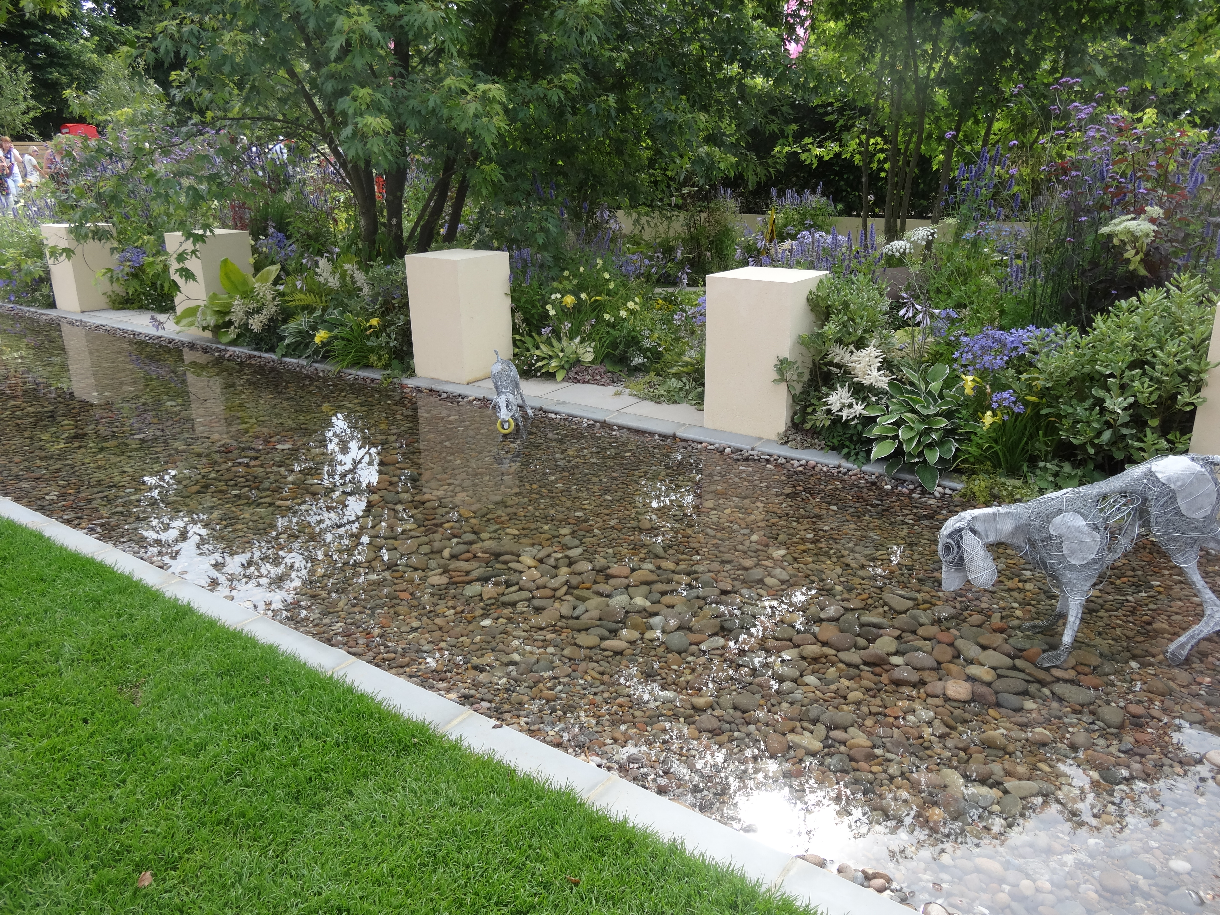 A Dog's Life was a garden at the Hampton Court Flower show in 2016. Designed for The Dog's Trust by Paul Hervey-Brookes it won gold.